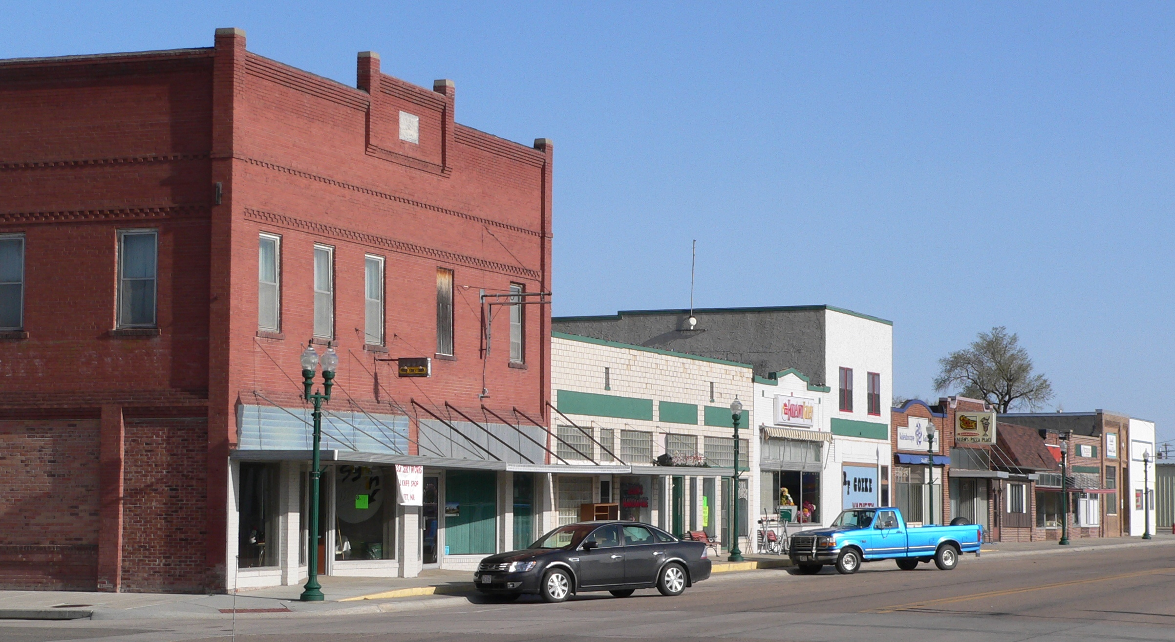 Downtown Bassett, Nebraska: west side of Clark Street, looking north from Legnard Street.